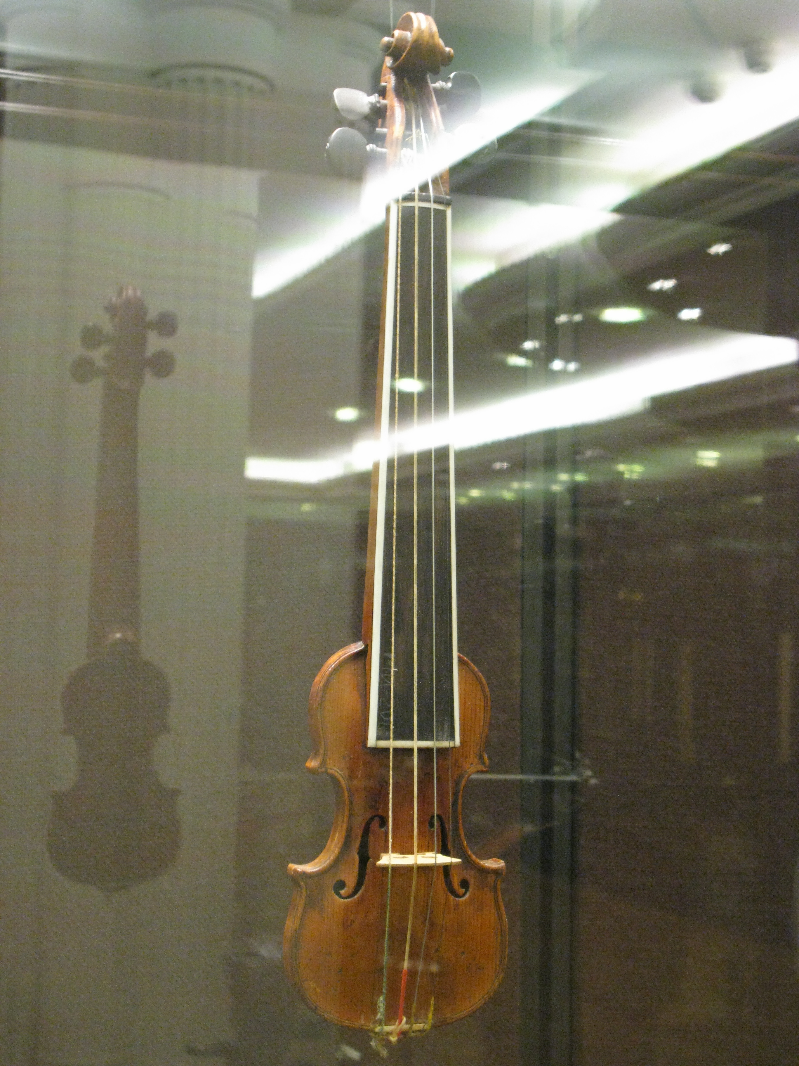 Example of pochette (Moscow, Glinka Museum) (XVIII century)